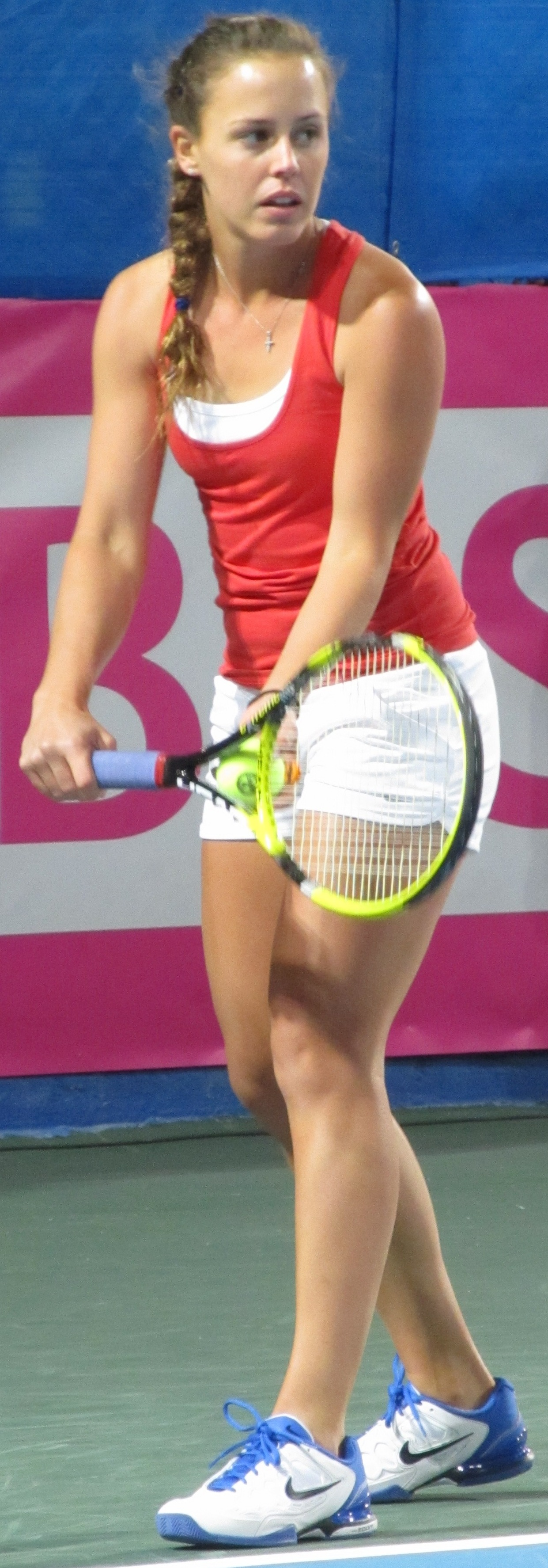 The tennis player Michelle Larcher de Brito of Portugal during her match against Shahar Pe'er of Israel in the 2nd day of Fed Cup Group I 2012 Europe/ Africa in Eilat, Israel.